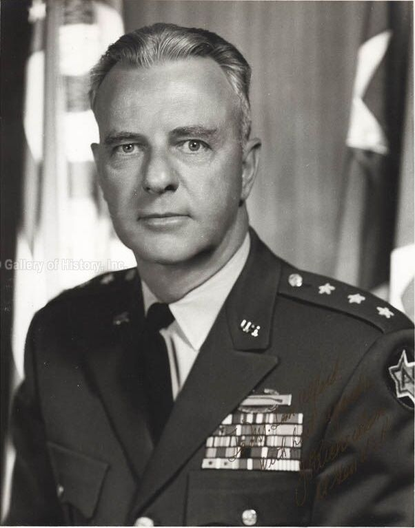 Official Portrait of LTG John L. Richardson, Commanding General Sixth United States Army. Autographed by the subject "To Mrs. Tom Alford/with best regards/J. L. Richardson/Lt Gen USA"